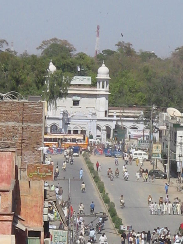 The Zilla (District) Courts/ City Centre Photgraph taken by: asif iftikhar Licensing This file was originally posted on under the below mentioned license and is hereby redistributed under the same conditions. To the uploader: Please provide a link to the original file and the authorship information.